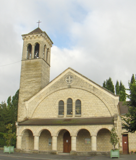 Sainte-Thérèse church in Bois Saint-Denis, Chantilly (Oise)